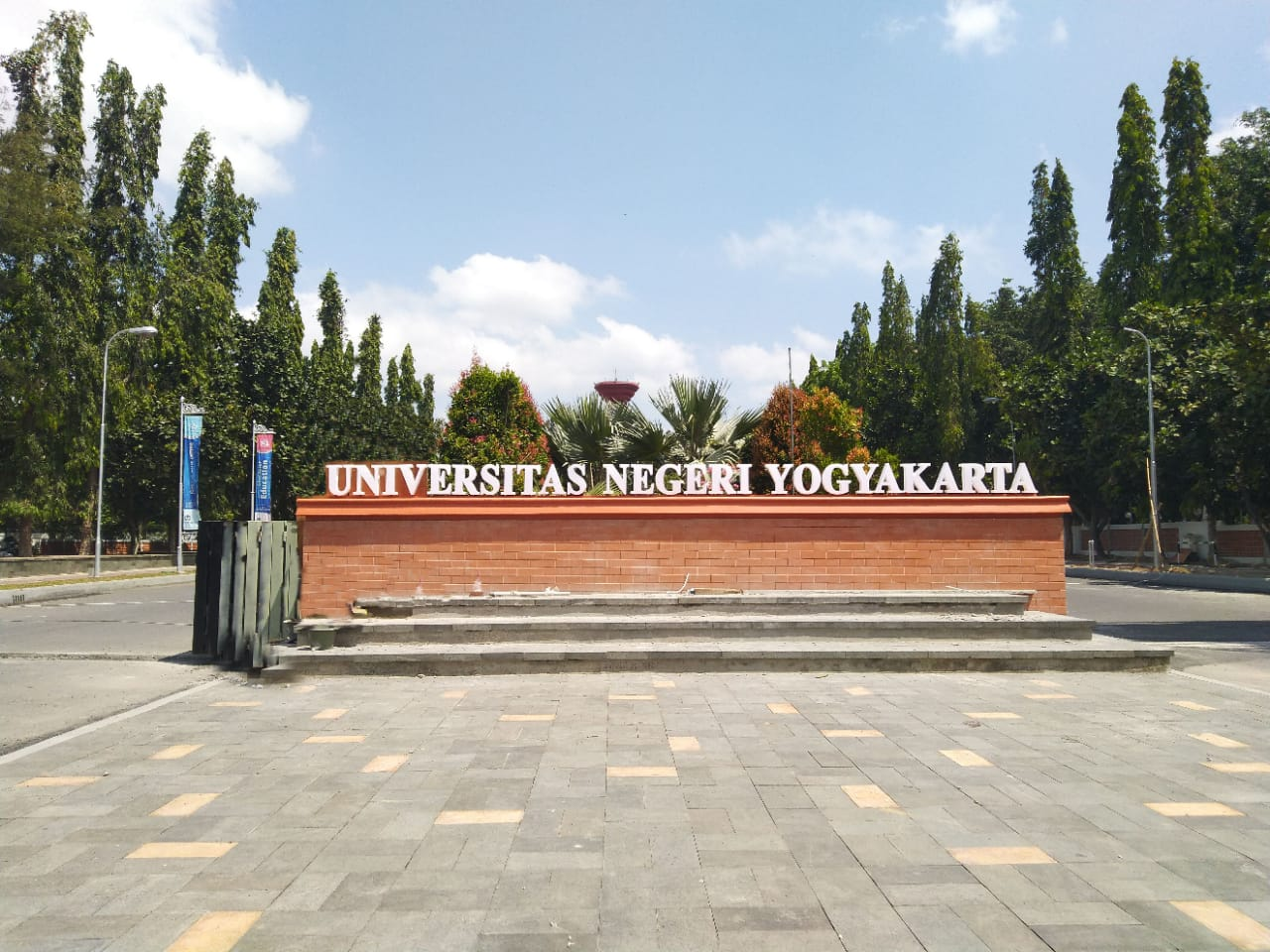 The Gate of Yogyakarta State University